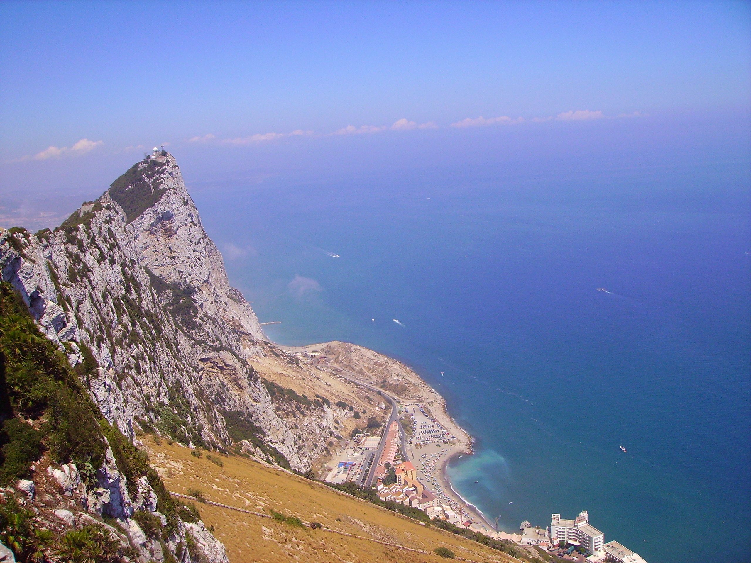 Catalan Bay, Gibraltar. Old water catchments' slope in the foreground.